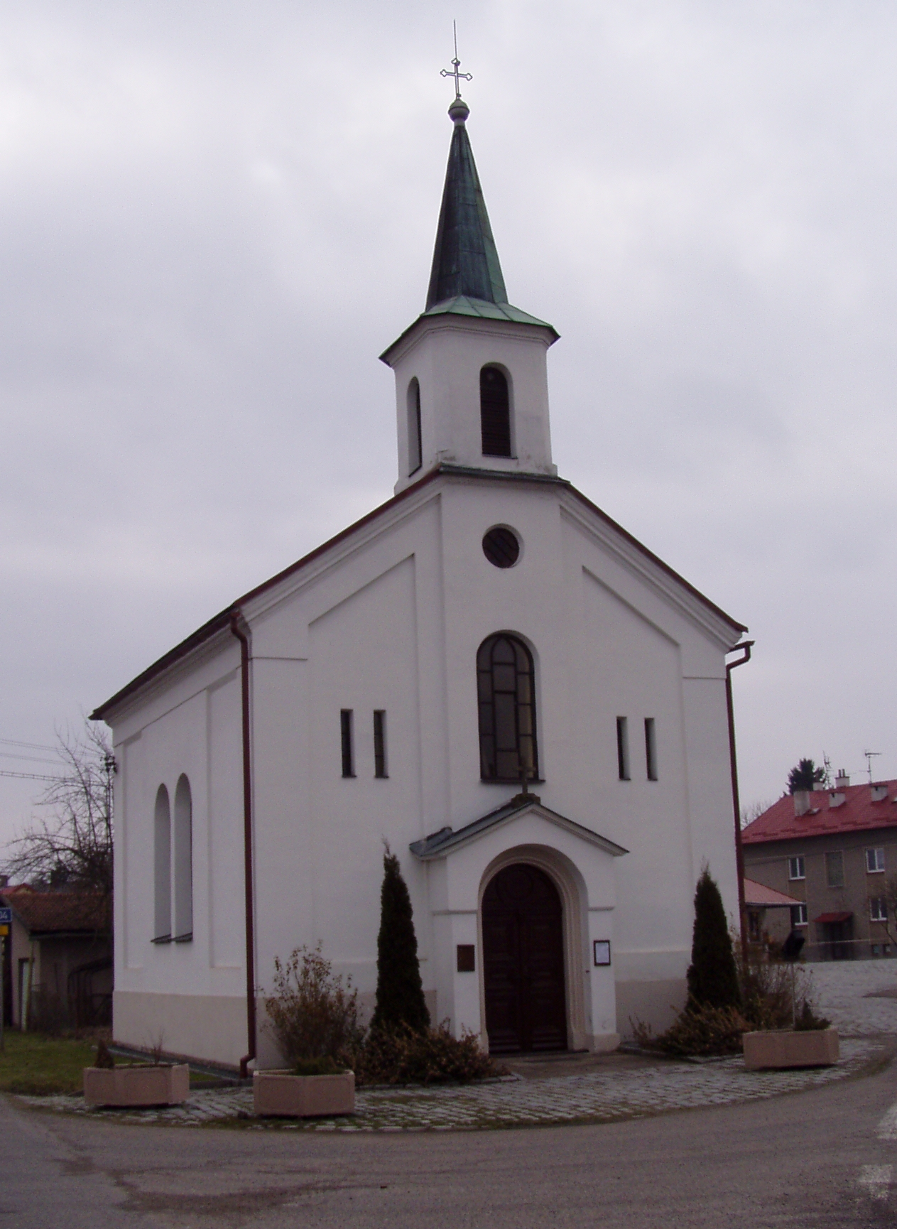 Chapel of the Visitation of Our Lady (Slavětín nad Metují)